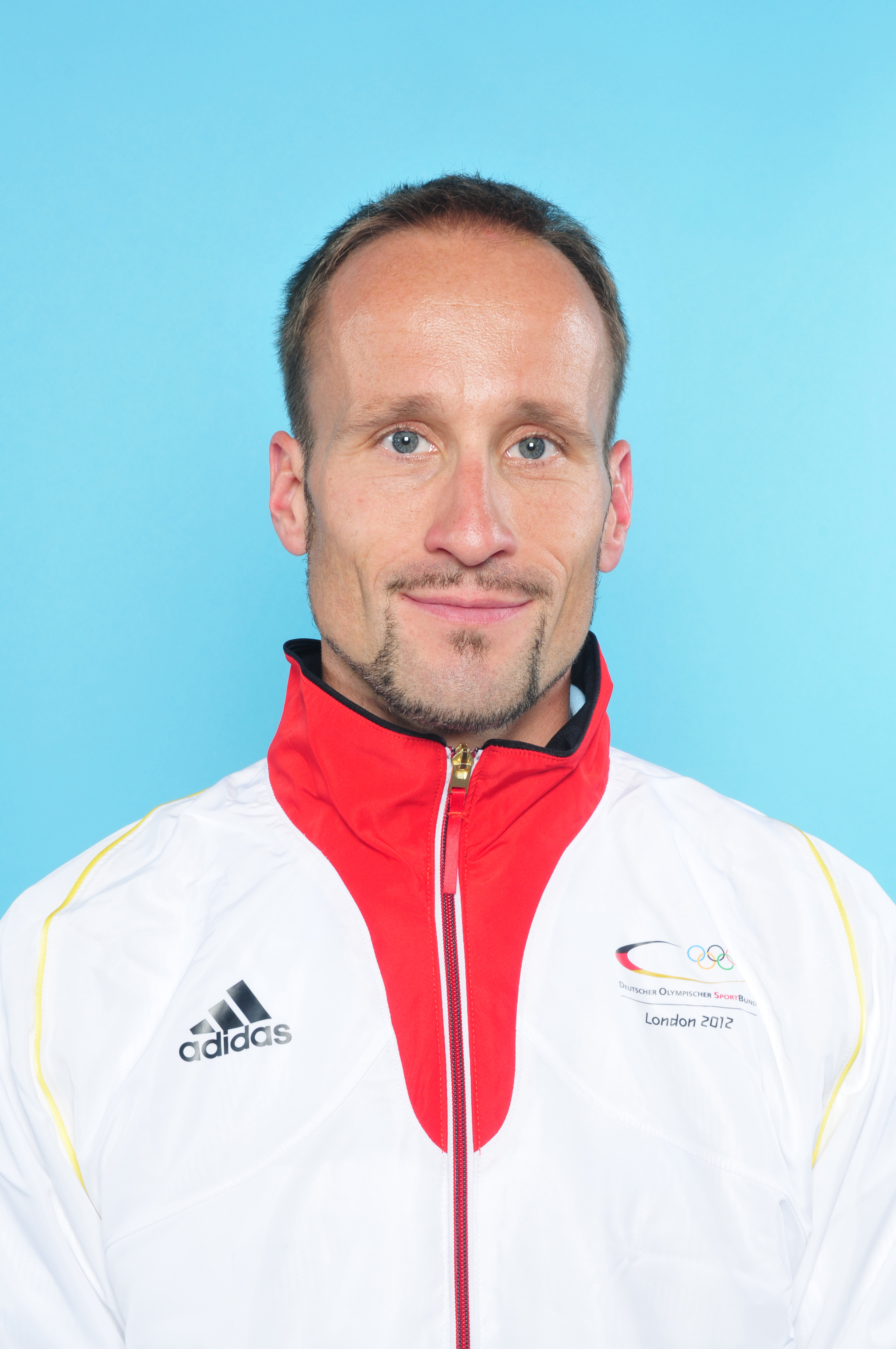 André Höhne, a German race walker in the 2012 Summer Olympics London